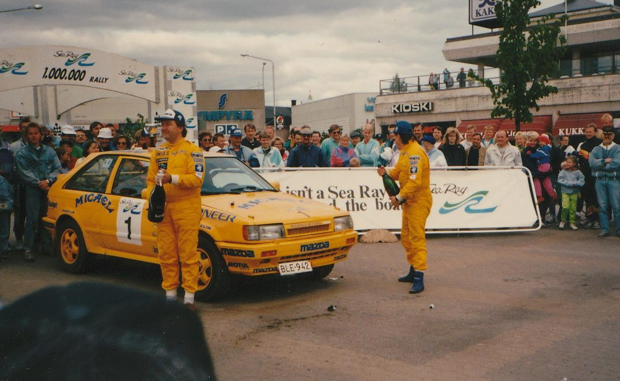 Rally driver Mikael Sundström celebrates victory of "million rally" in Hamina Finland in 1990.